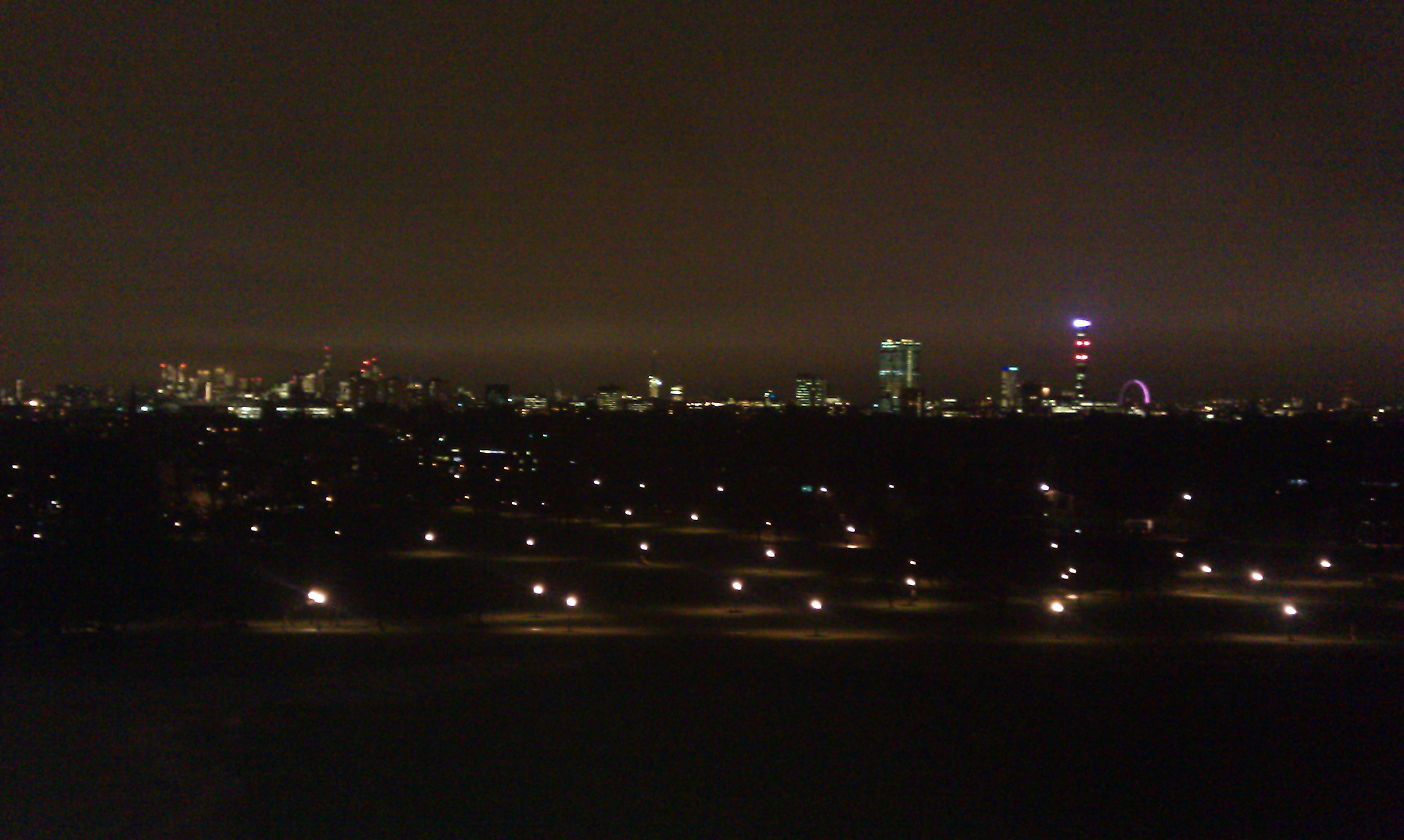 Night shot from the top of Primrose Hill overlooking central London